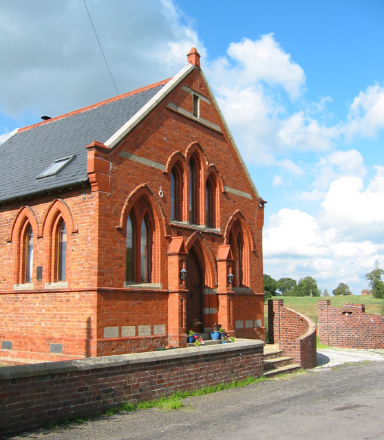 Former chapel at Blakenhall. Red brick chapel on Mill Lane on the eastern edge of the hamlet of Blakenhall. Now residential